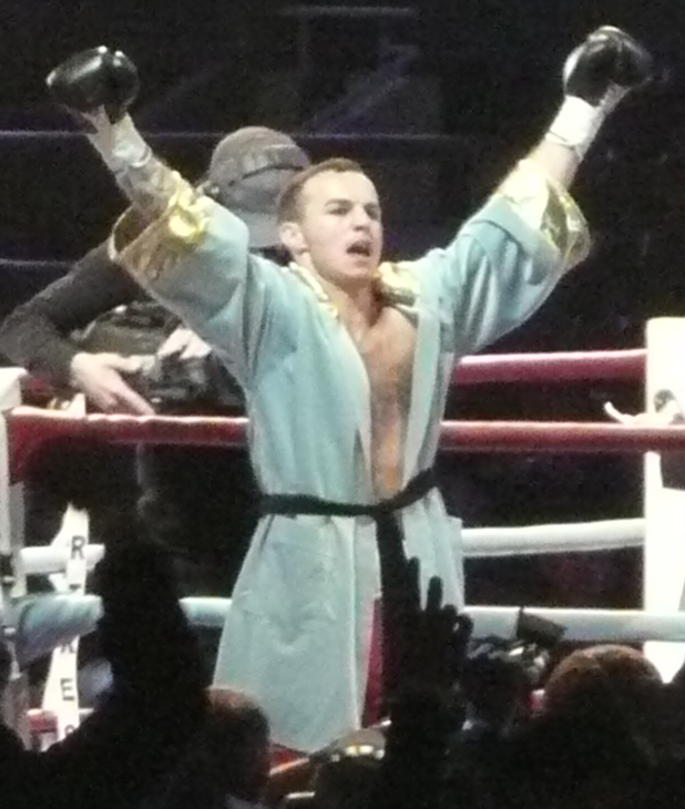 Kevin Mitchell ready to enter the ring against Michael Katsidis, at Boleyn Ground in London, England.